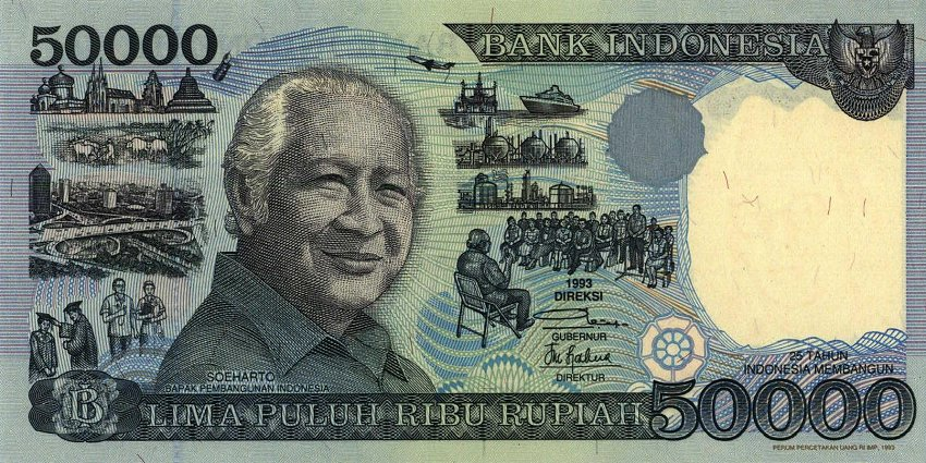 50000 rupiah banknote